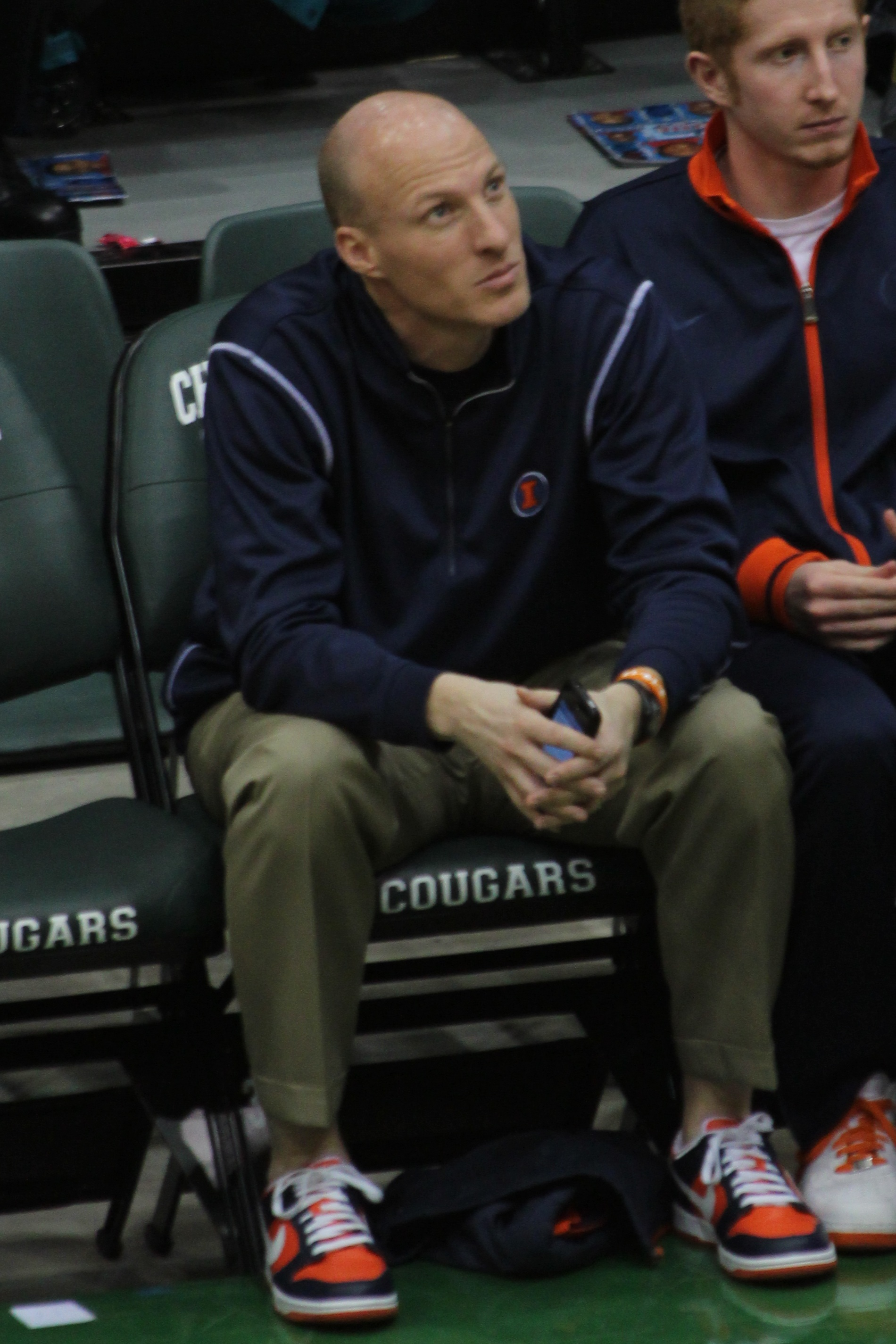 John Groce at Chicago State University's Emil and Patricia Jones Convocation Center